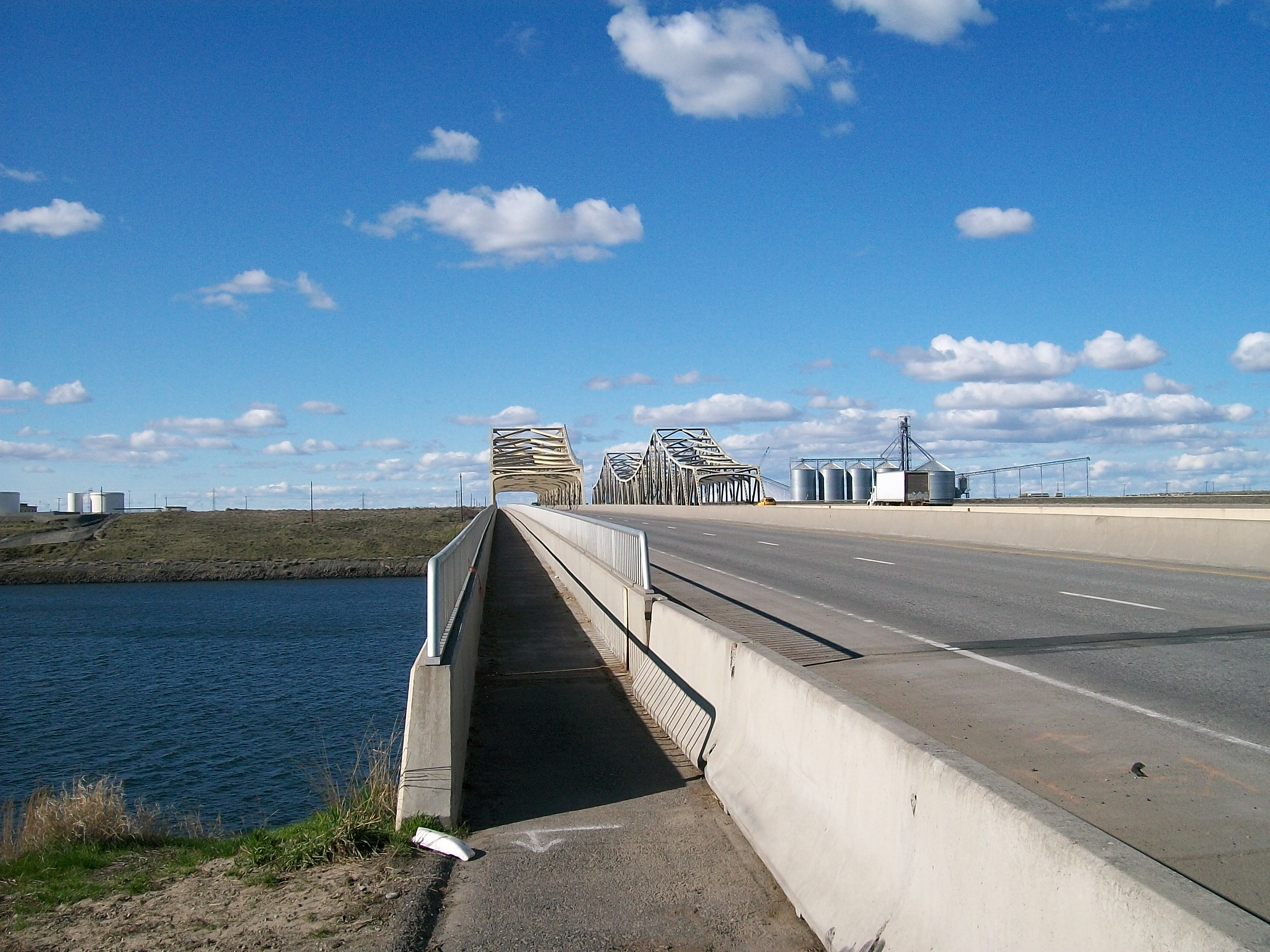 Vaughn Hubbard Bridge as seen from Burbank, Washington. Franklin County, Washington can be seen in the background.